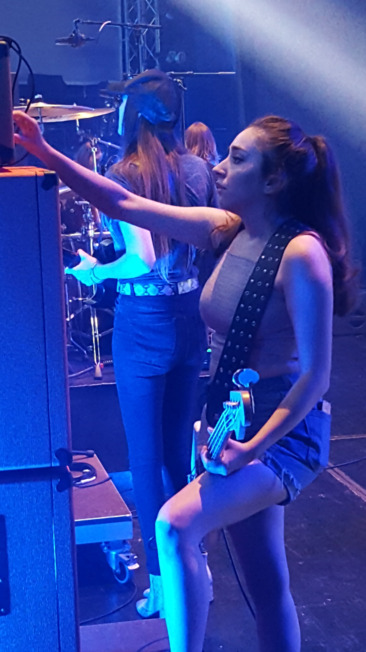 Jacinta Jaye, ex-bass guitarist of Tequila Mockingbyrd and The Amorettes, adjusting her equipment during a soundcheck prior to an Amorettes concert in Luzern, Switzerland, 25 July 2019.